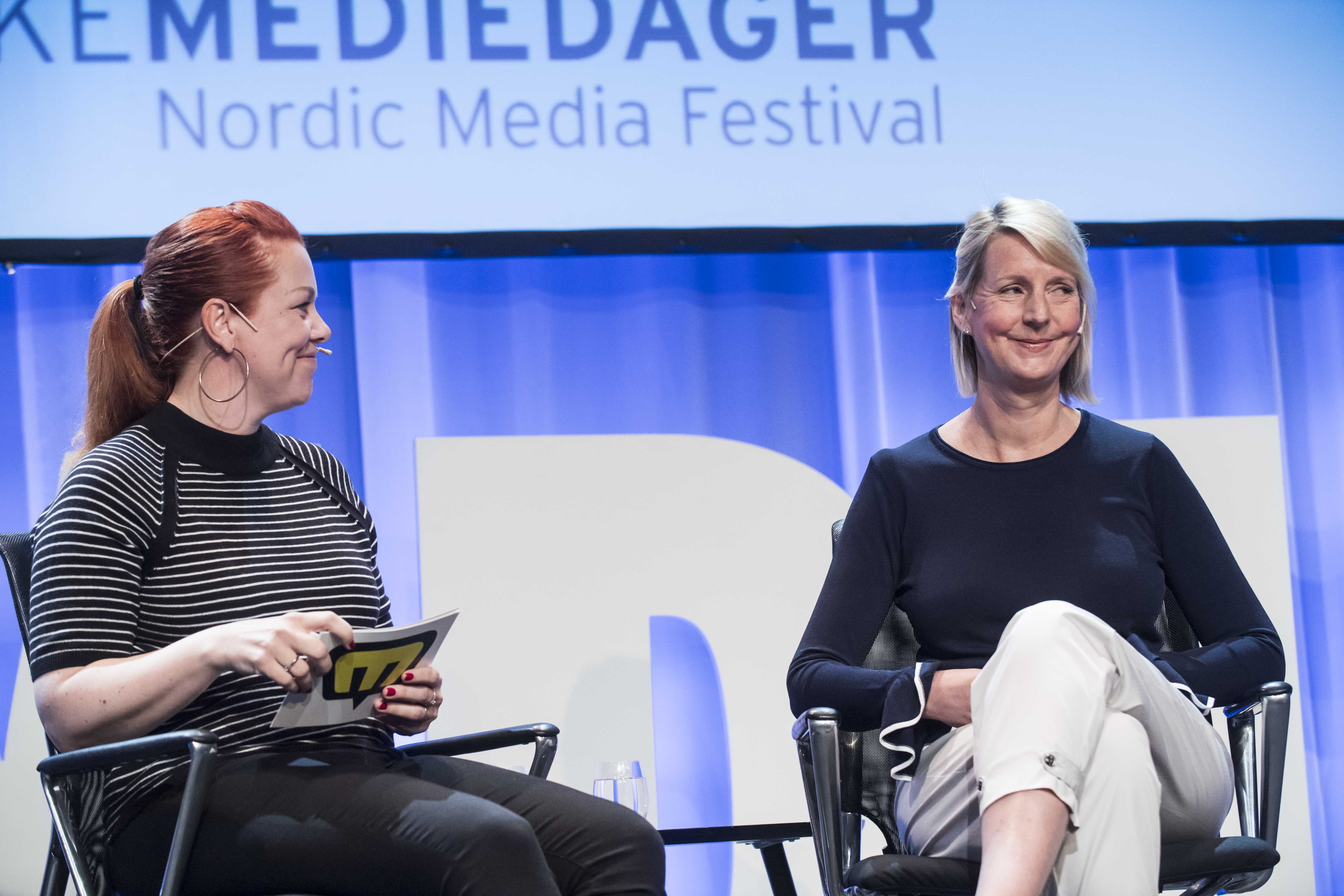 The Crown En andeledes historietime med Suzanne MackieModerator Cecilie Asker